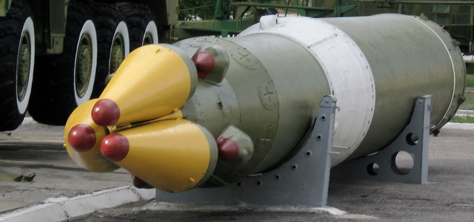 Medium-range ballistic missile with a nuclear warhead RSD-10 "Pioneer". NATO reporting name was SS-20 Saber. Kapustin Yar museum in Znamensk, Russia.